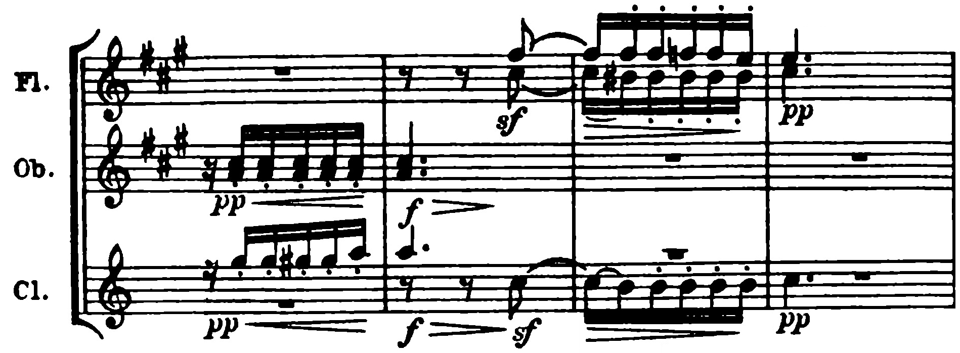 'Les Éolides' by César Franck: the woodwinds theme